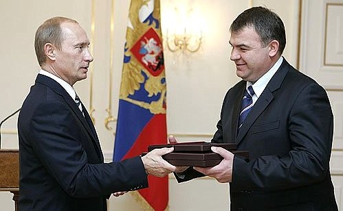 Putin handed over to the GRU Hero of Russia certificate bestowed on Soviet intelligence officer George Koval